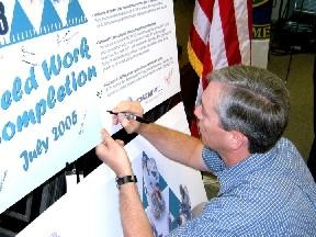 In July 2006, Deputy Secretary of Energy Clay Sell joined tank-farm workers at the Hanford Site in Richland, WA as they expressed their sense of pride in completing the 11-year project to complete fieldwork for the Tank Farm upgrades.